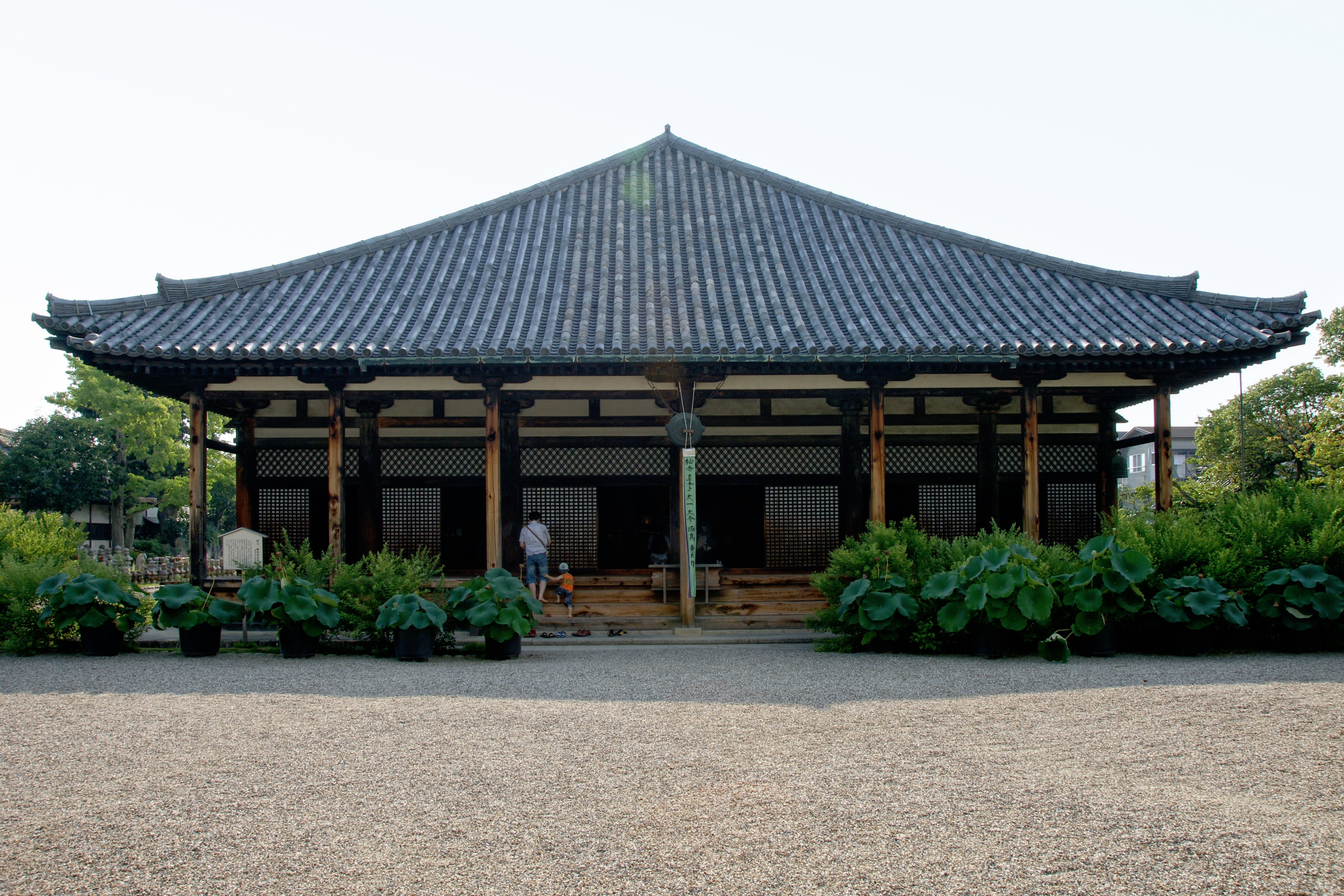 Gangō-ji in Nara, Nara prefecture, Japan